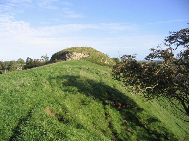 Wark Castle Early 12th century, rebuilt 1153-6, extended later Motte-and-bailey castle holding the Southern bank of the Tweed, with a huge keep, 75x50m on the motte. Wark's royal artillery left in 1633 after centuries of royal military activity, and the site was left to nature. (Source: Borders and Berwick, An Architectural Guide by Charles Alexander Strang)